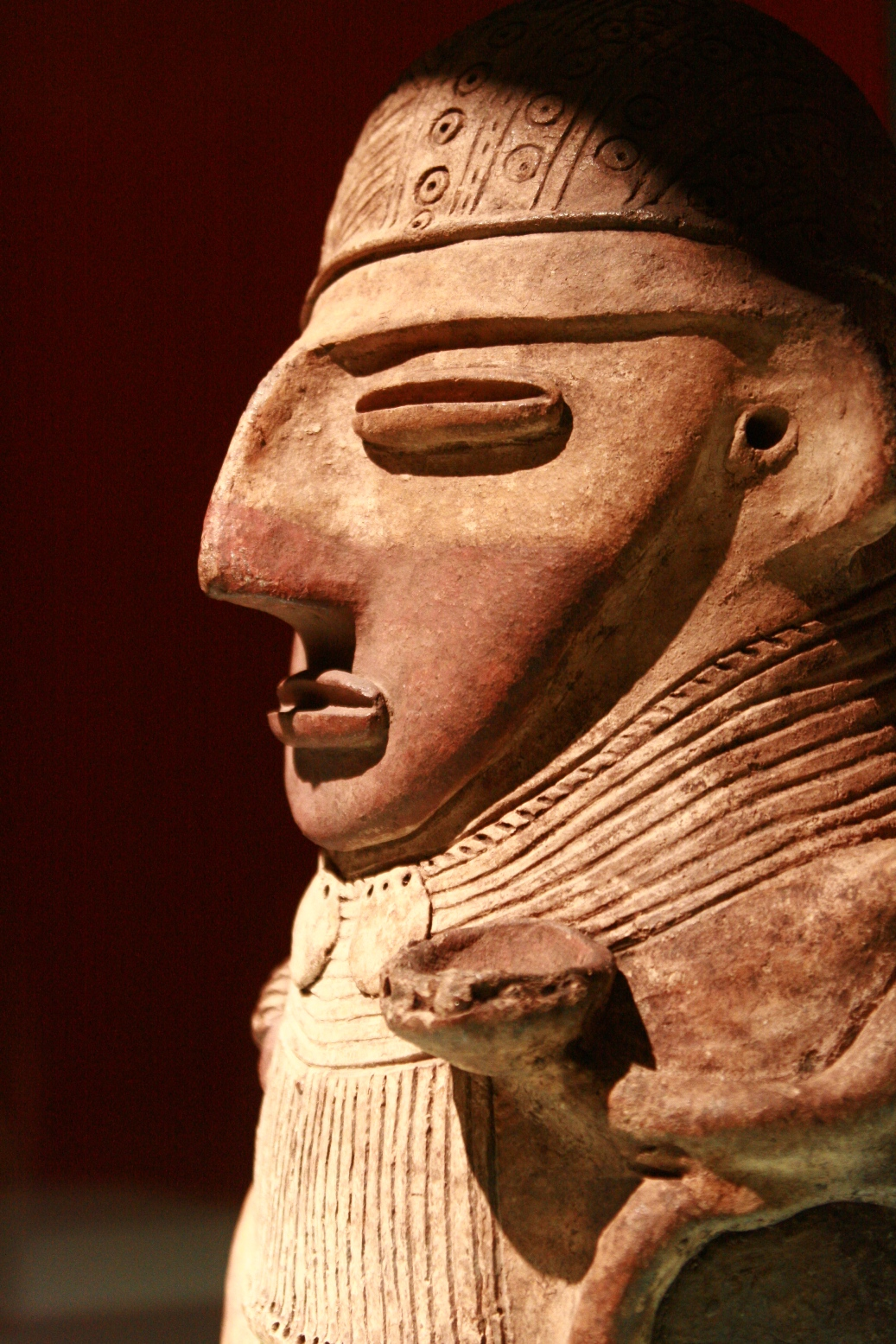 Man whose eyes and mouth have been made from double strips in order to create the typical "coffee bean" feature. Cundinamarca - Boyacá high plains Figure Pottery A.D. 600 – A.D. 1600 37,5 X 26,5 cm Reference: Museo del Oro, Bogotá